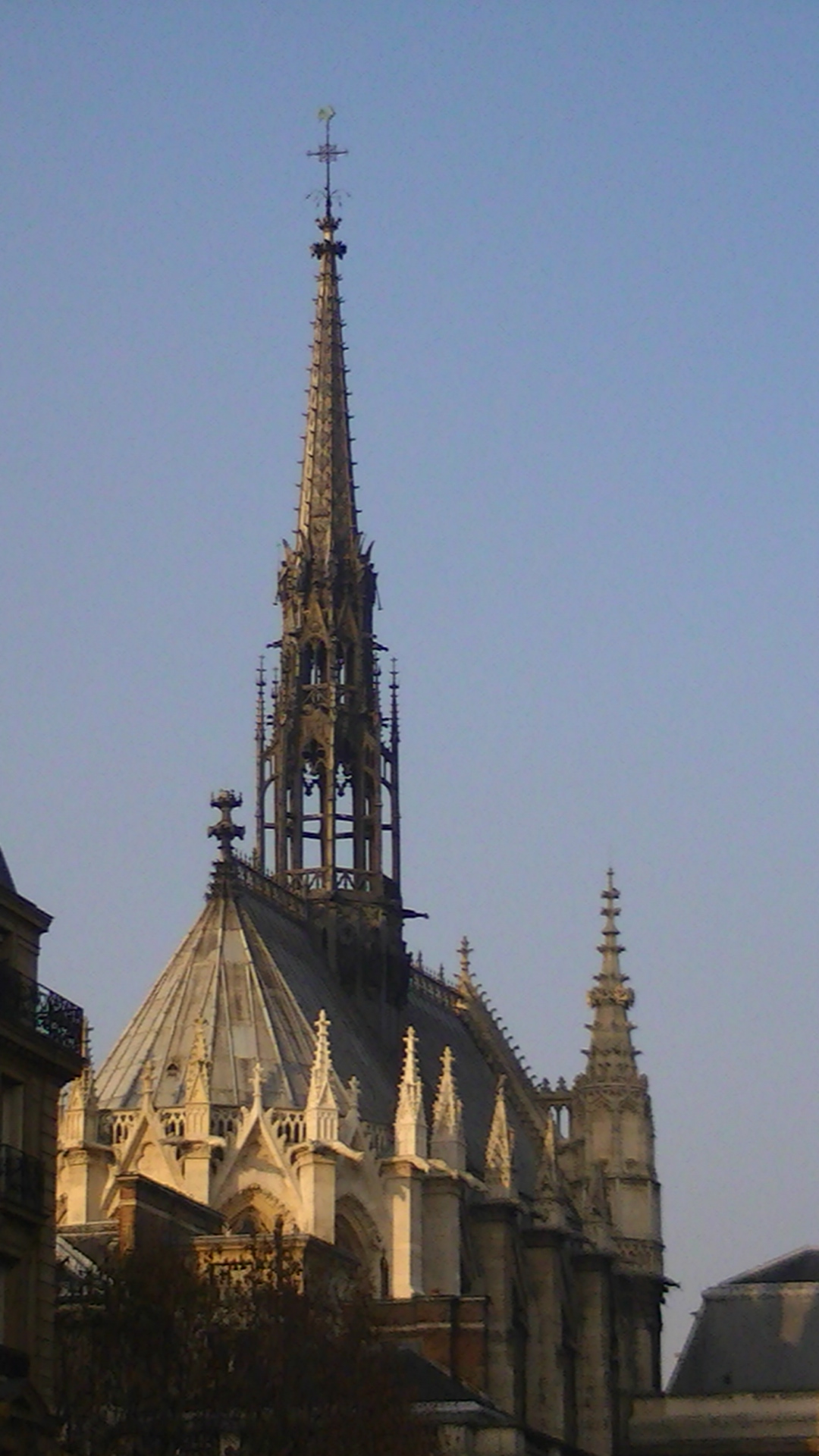 Sainte-Chapelle, Paris . Object location48° 51′ 19.4″ N, 2° 20′ 42″ E